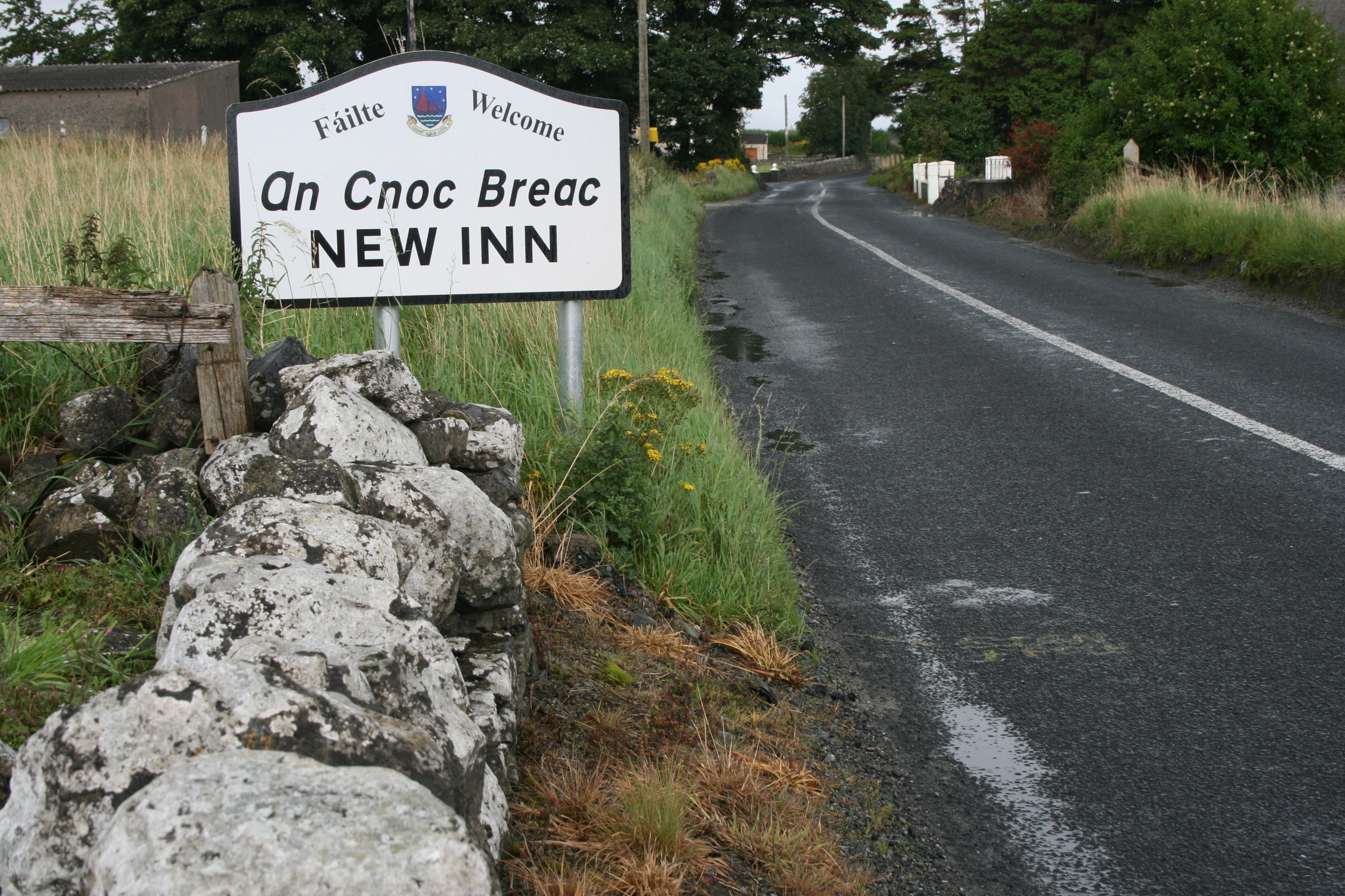 New Inn, Co. Galway